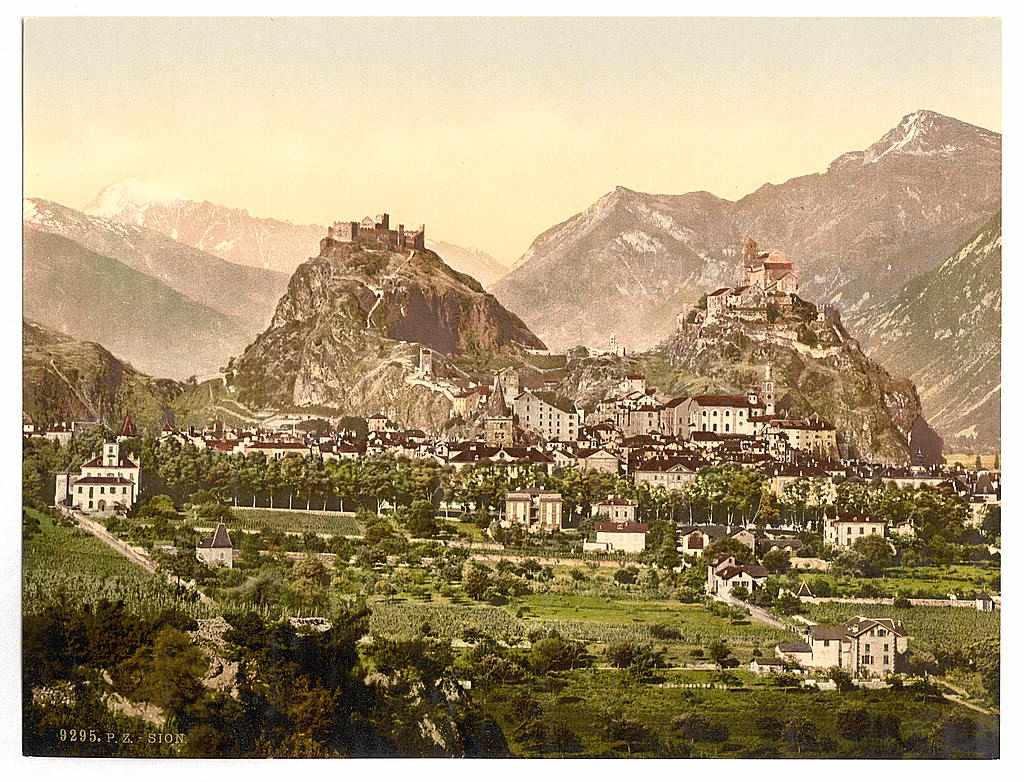 Sion/Sitten in Valais/Wallis, Switzerland. 19th century postcard, general view, 19th century